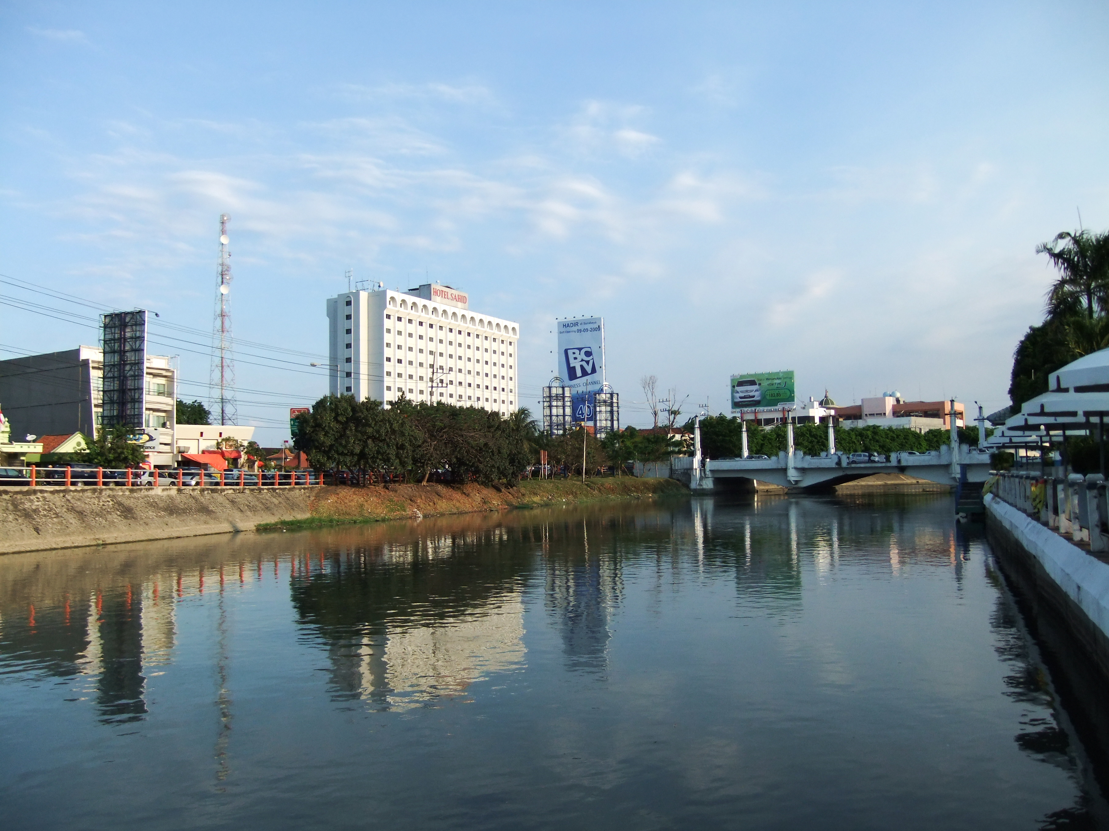 Sahid Hotel, Surabaya